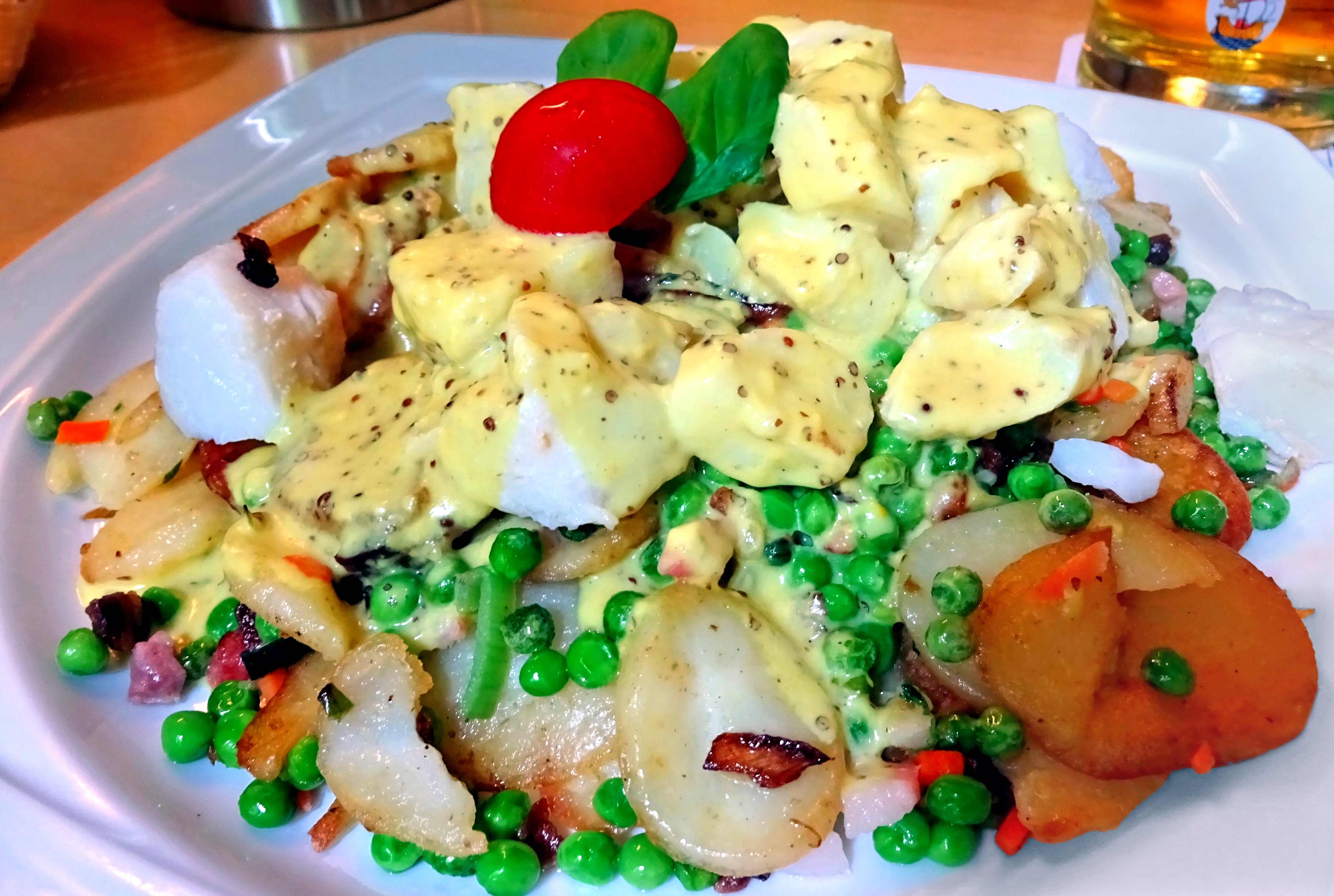 Flensburger Pannfisch with fish, peas, fried potatoes and Dijon mustard Sauce. Photographed in the Red Hof in Flensburg .